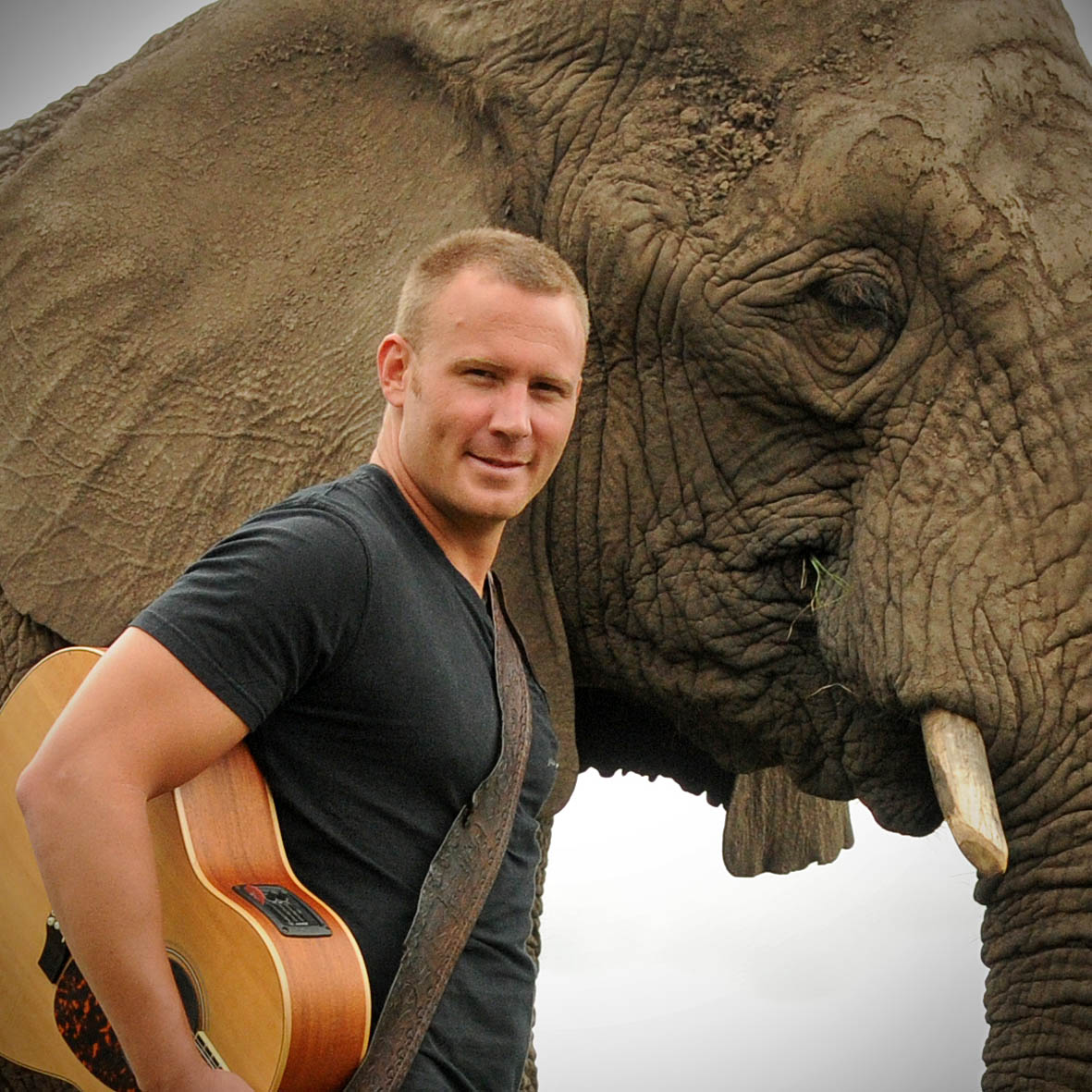 Jason Hartman